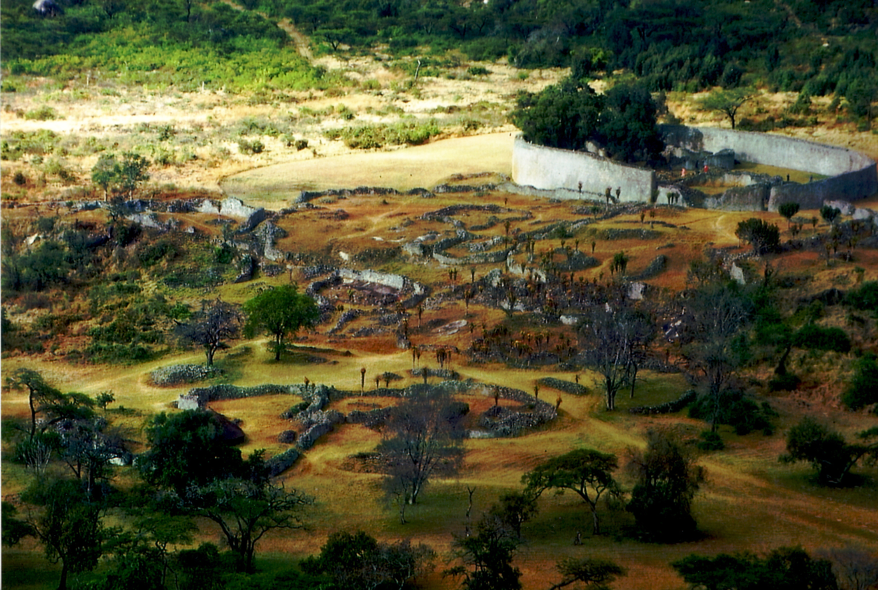 View from hill komplex to the valley in Great Zimbabwe Ruins